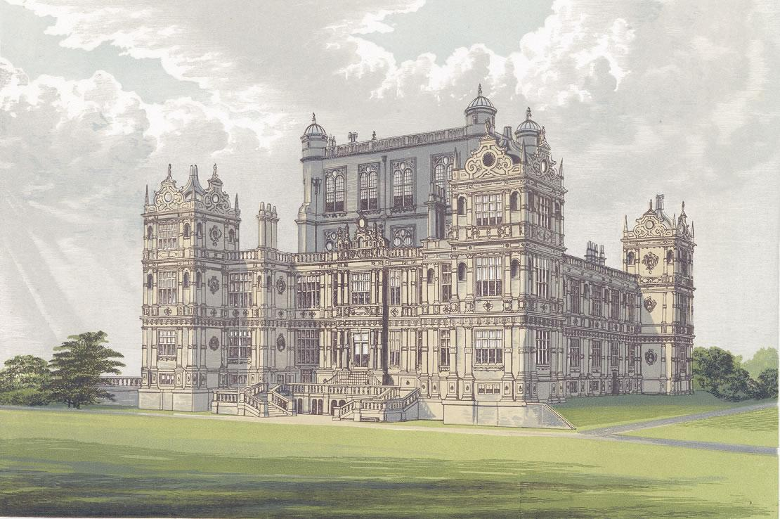 Wollaton Hall from Morris's Seats of Noblemen and Gentlemen (1880).